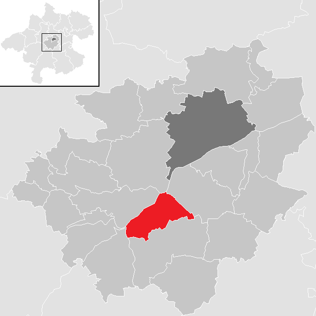 District Wels-Land